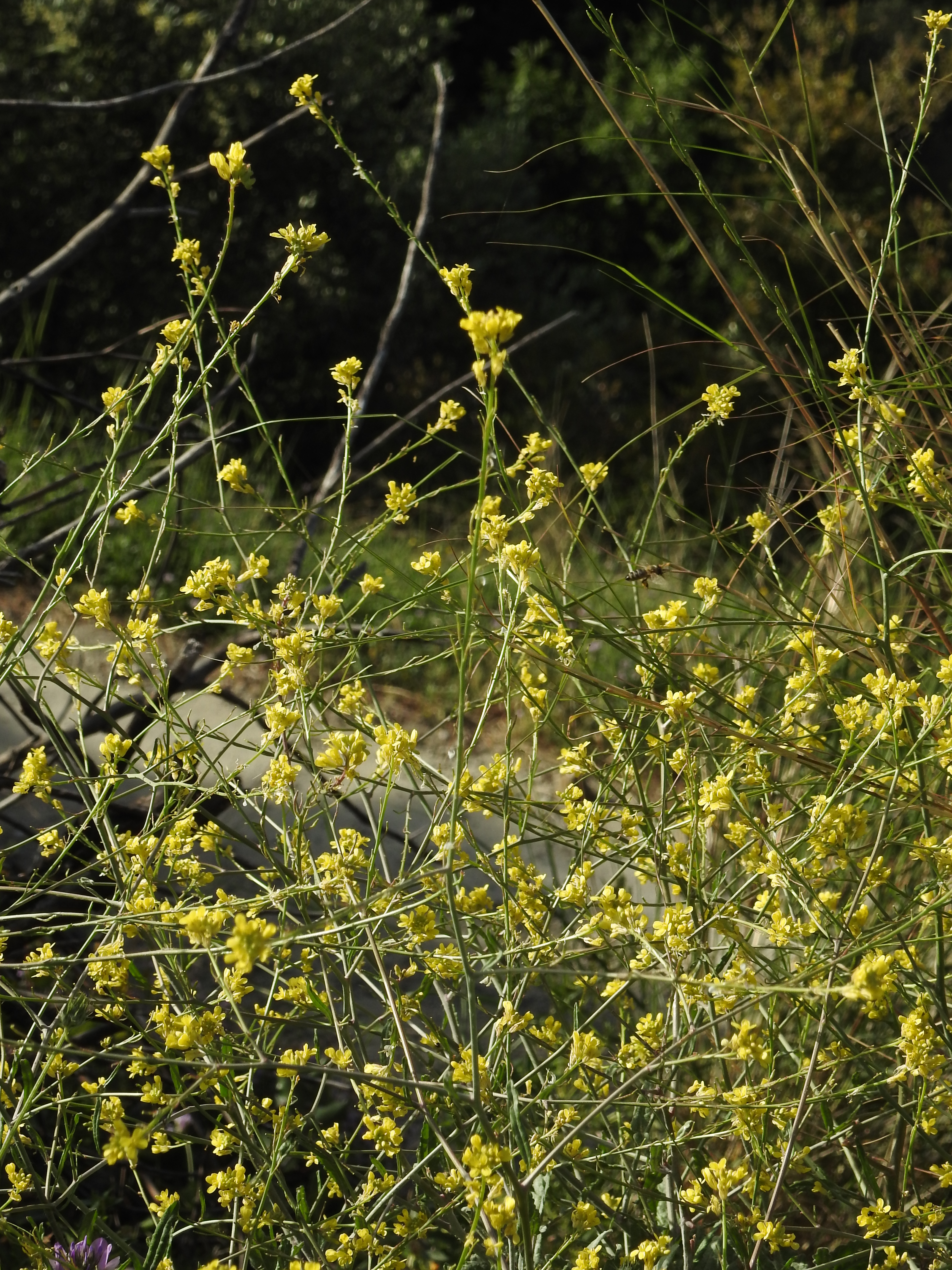 Shortpod mustard (Hirschfeldia incana), north of Lakkoi, Crete, Greece